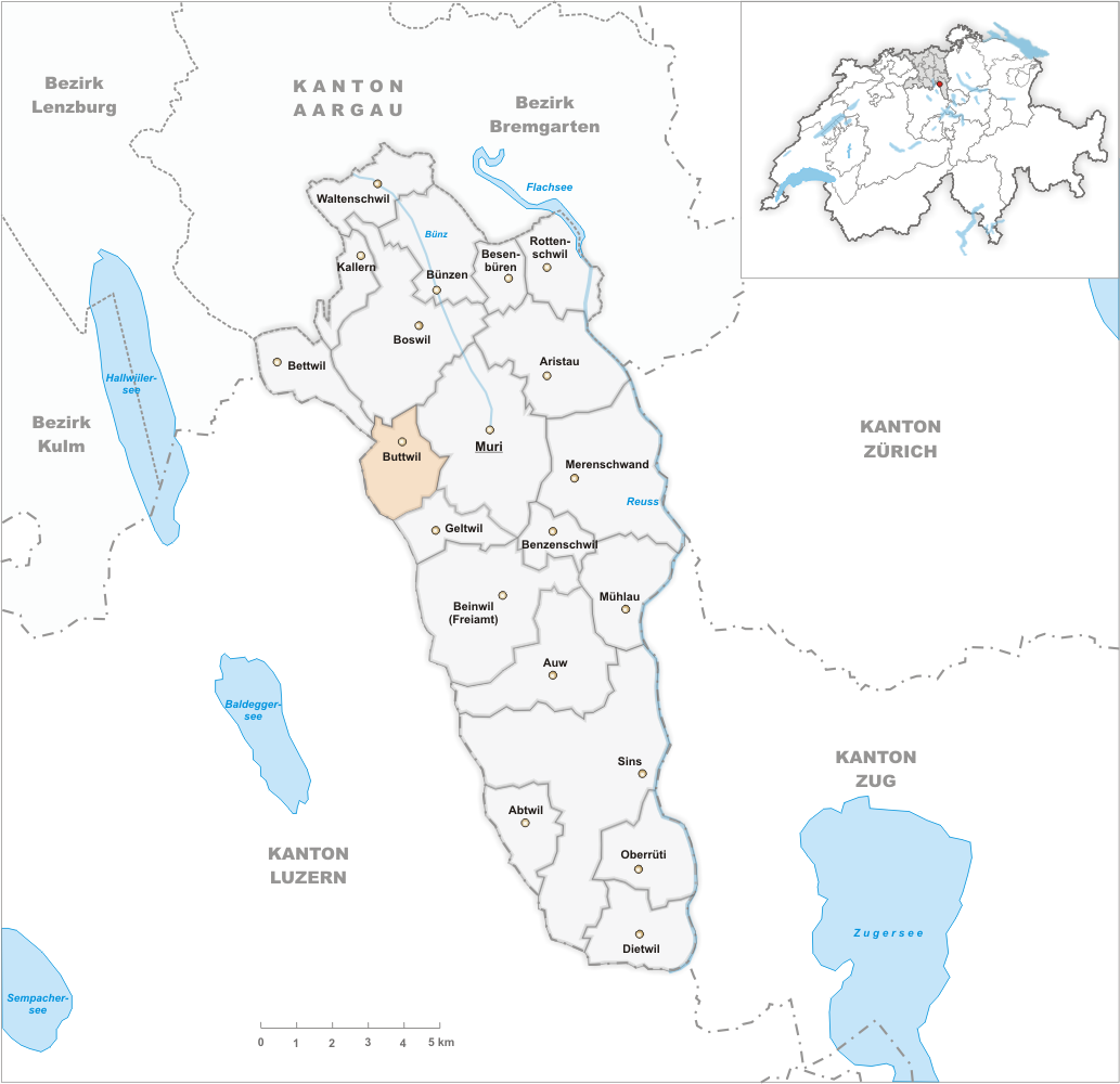 Municipality Buttwil